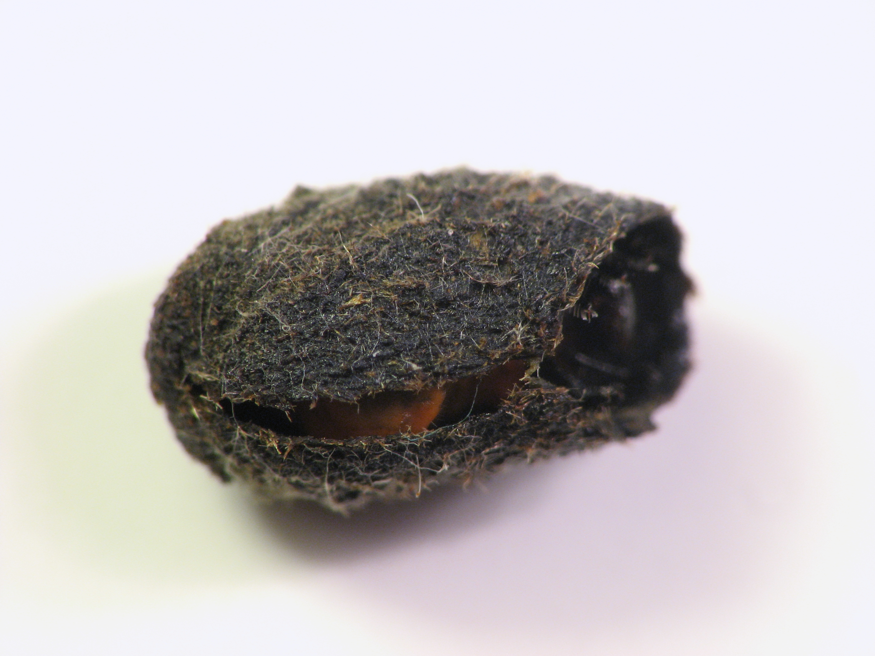 Warty leaf beetle, Neochlamisus, larval fecal case. Size: larva: 10 mm, casing 7 mm. Pennypack Restoration Trust, Montgomery County, Pennsylvania, USA. 40.1420° N, 75.0830° W.